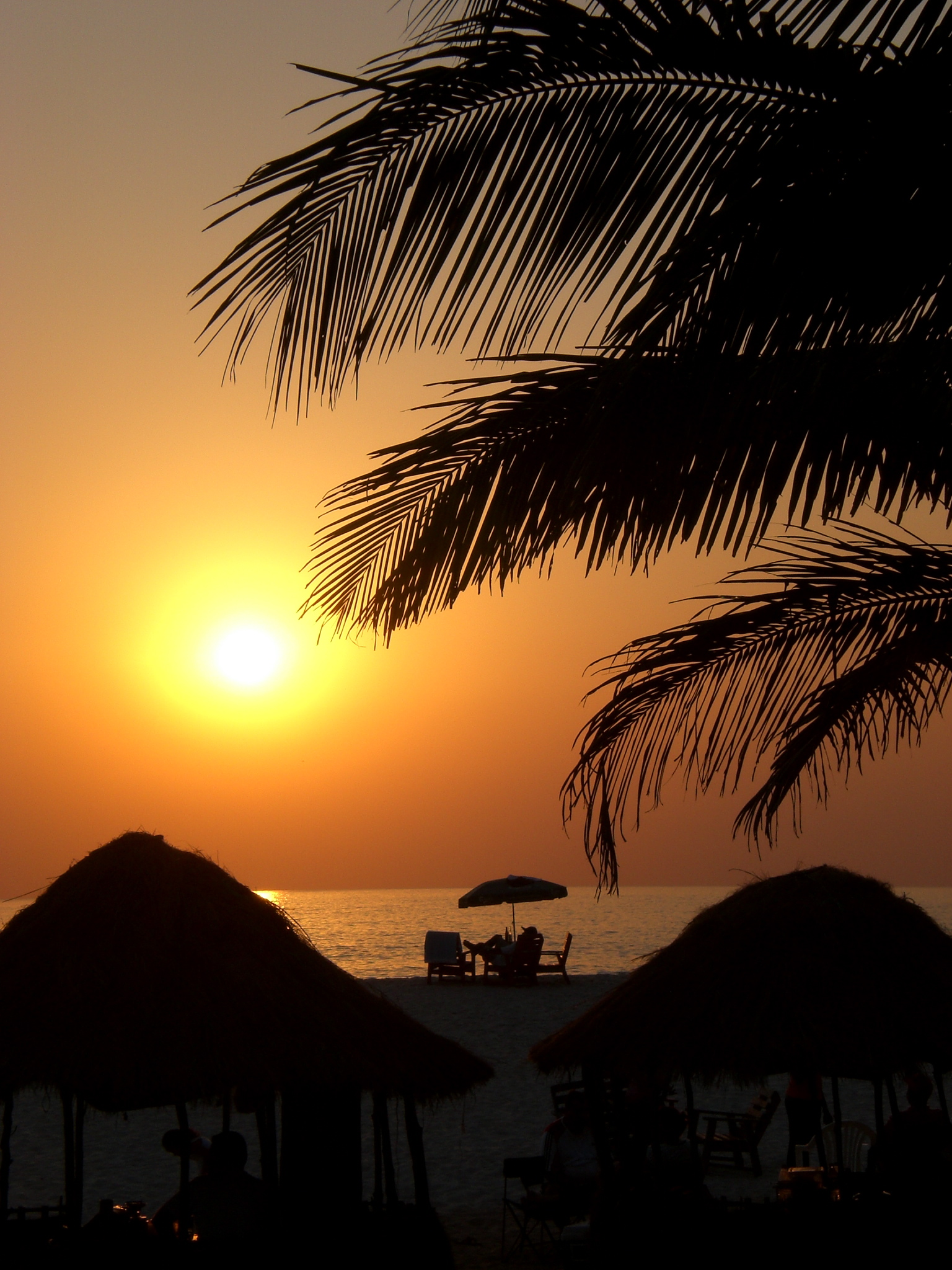 Sierra Leone River No 2 Sunset.